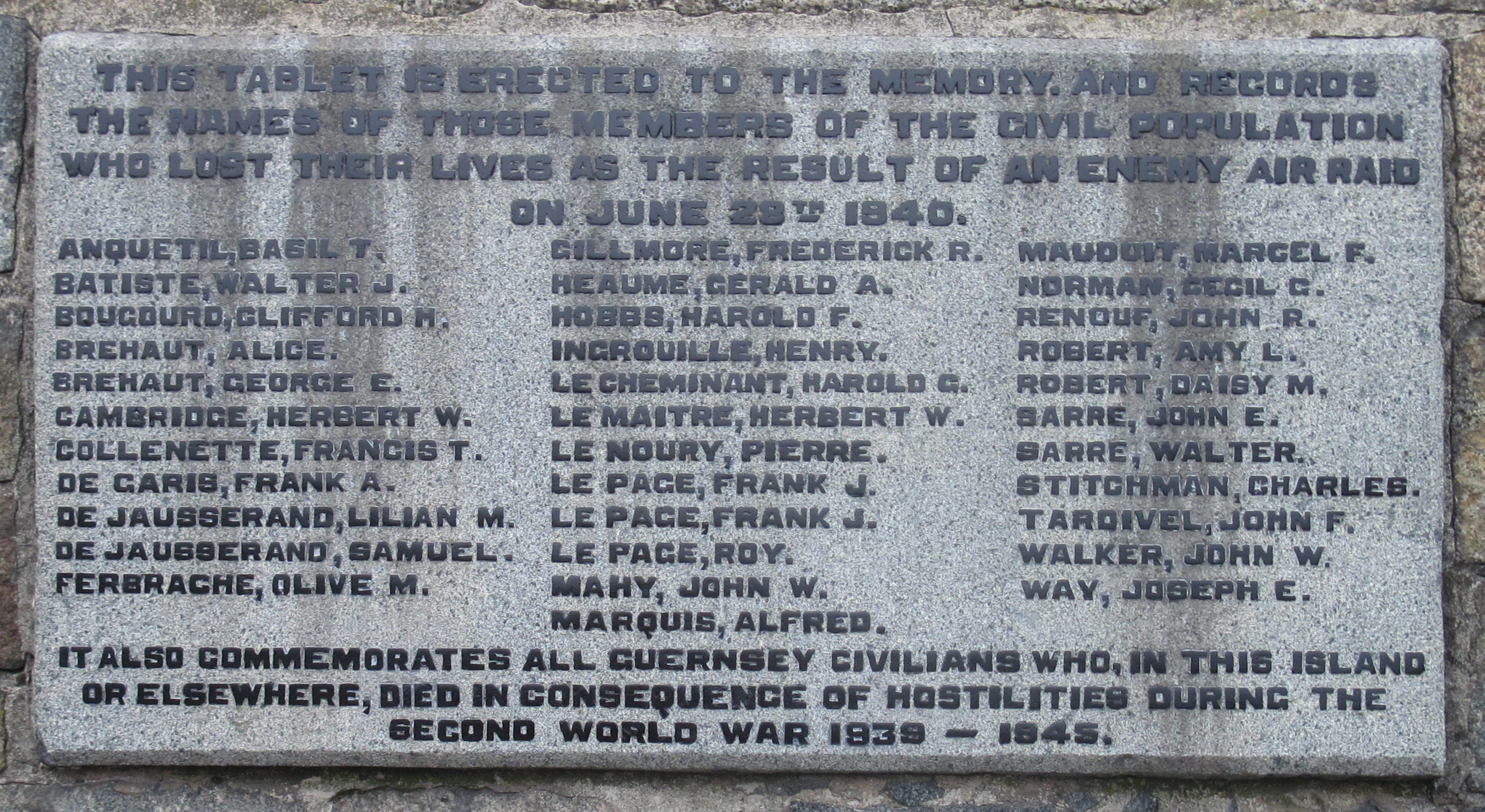 Guernsey, 2 July 2010: plaque